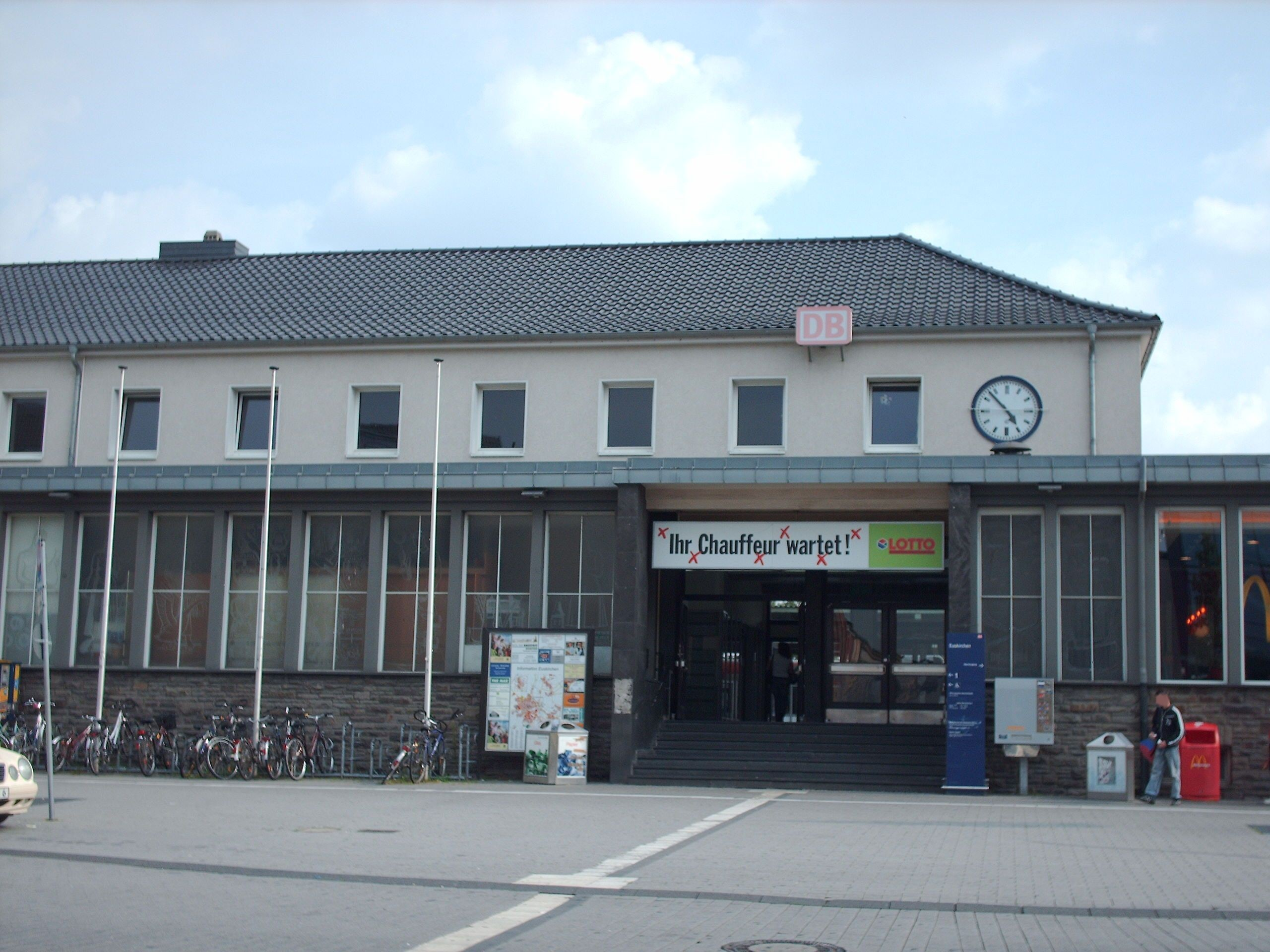 Euskirchen station, Euskirchen, Germany check usage